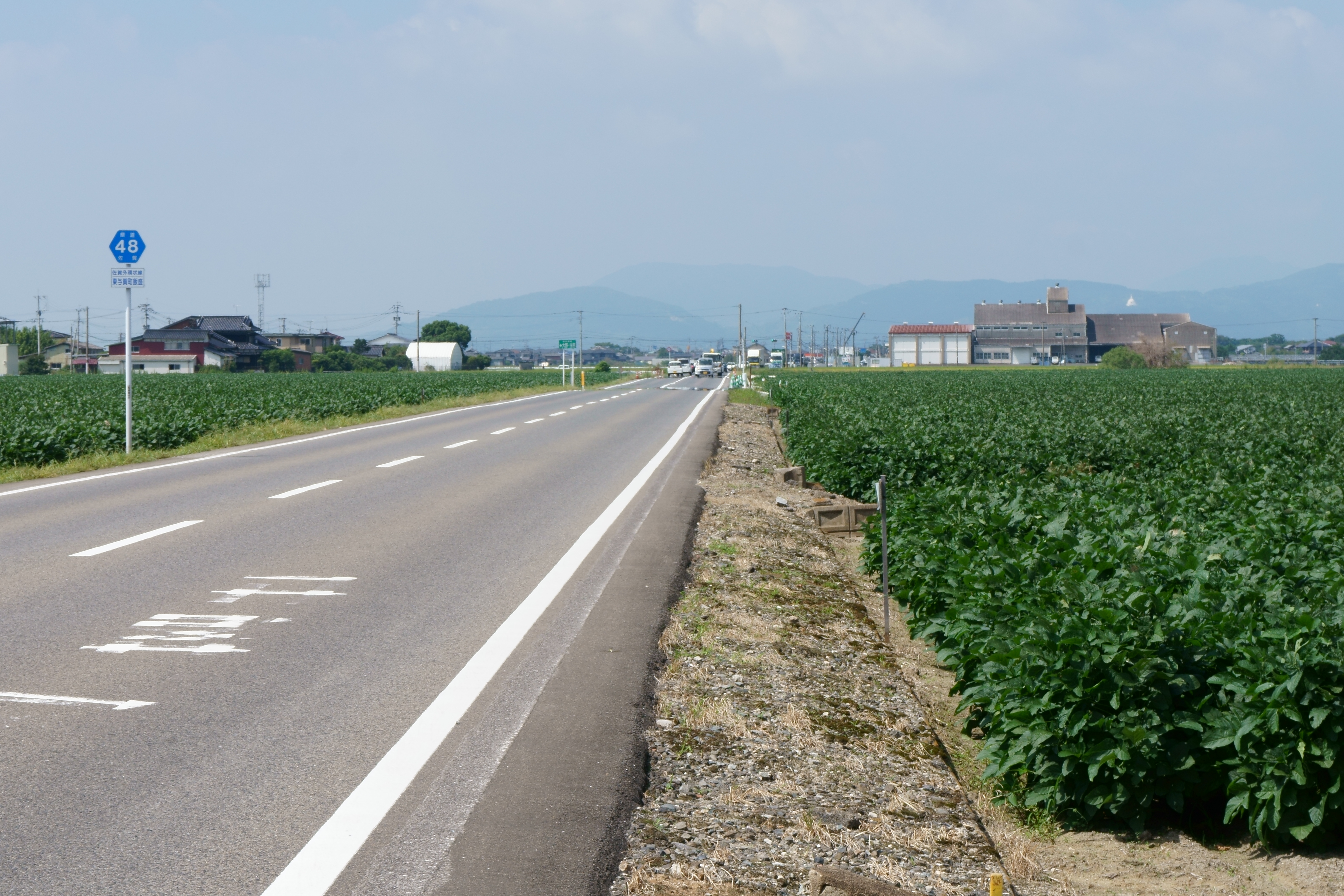 Saga Prefectural Road 48 in Higashiyoka-cho Isagai, Saga city.